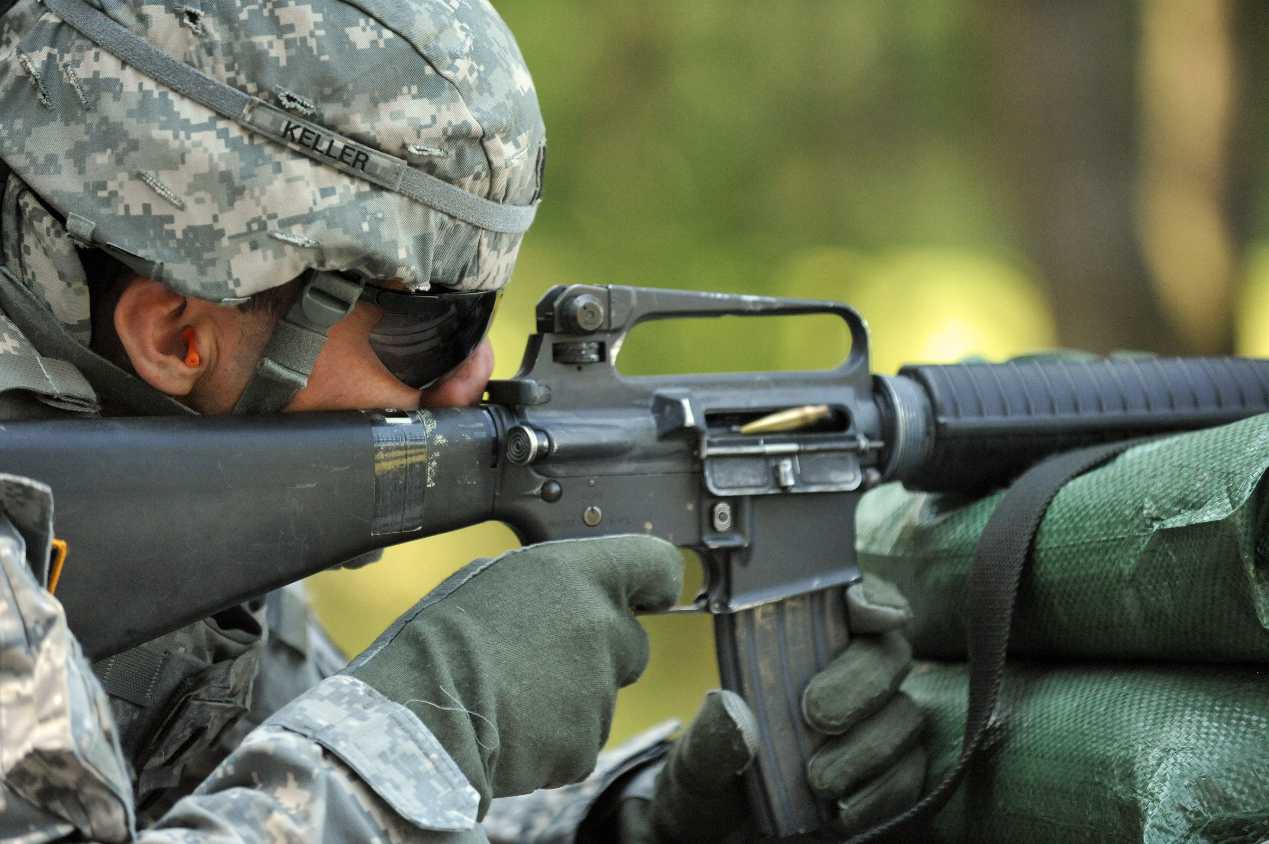 GRAFENWOEHR, Germany --- 1st Lt. Brian Keller, 212th Combat Support Hospital, fires his weapon during United States Army Europe's Best Junior Officer Competition in Grafenwoehr, Germany, July 24, 2012. The Best Junior Officer Competition, unique to the U.S. Army in Europe, is a training event meant to challenge and refine competitors' leadership and cognitive decision-making skills in a high-intensity environment. The competition runs from July 23-27, 2012. The competitors, company-grade officers ranking from 2nd Lt. to Capt., represent Army units throughout Europe and have already distinguished themselves amongst their peers and exemplify the profession of arms. The competition brings these up-and-coming young leaders together for five days of physically and mentally challenging training, all for the chance to be named U.S. Army Europe's "Best Junior Officer" for 2012. Challenges include pistol and rifle qualifications, multiple foot marches, and various situational training exercises to test their intellect and instincts as leaders. The knowledge, skill-sets and leadership traits honed at this competition will help prepare the young leaders involved to excel when the time comes to lead Soldiers in a deployed environment. For more information or to see photos and video from the competition go to the U.S. Army Europe Web site (U.S. Army photo by Visual Information Specialist Markus Rauchenberger/Released)